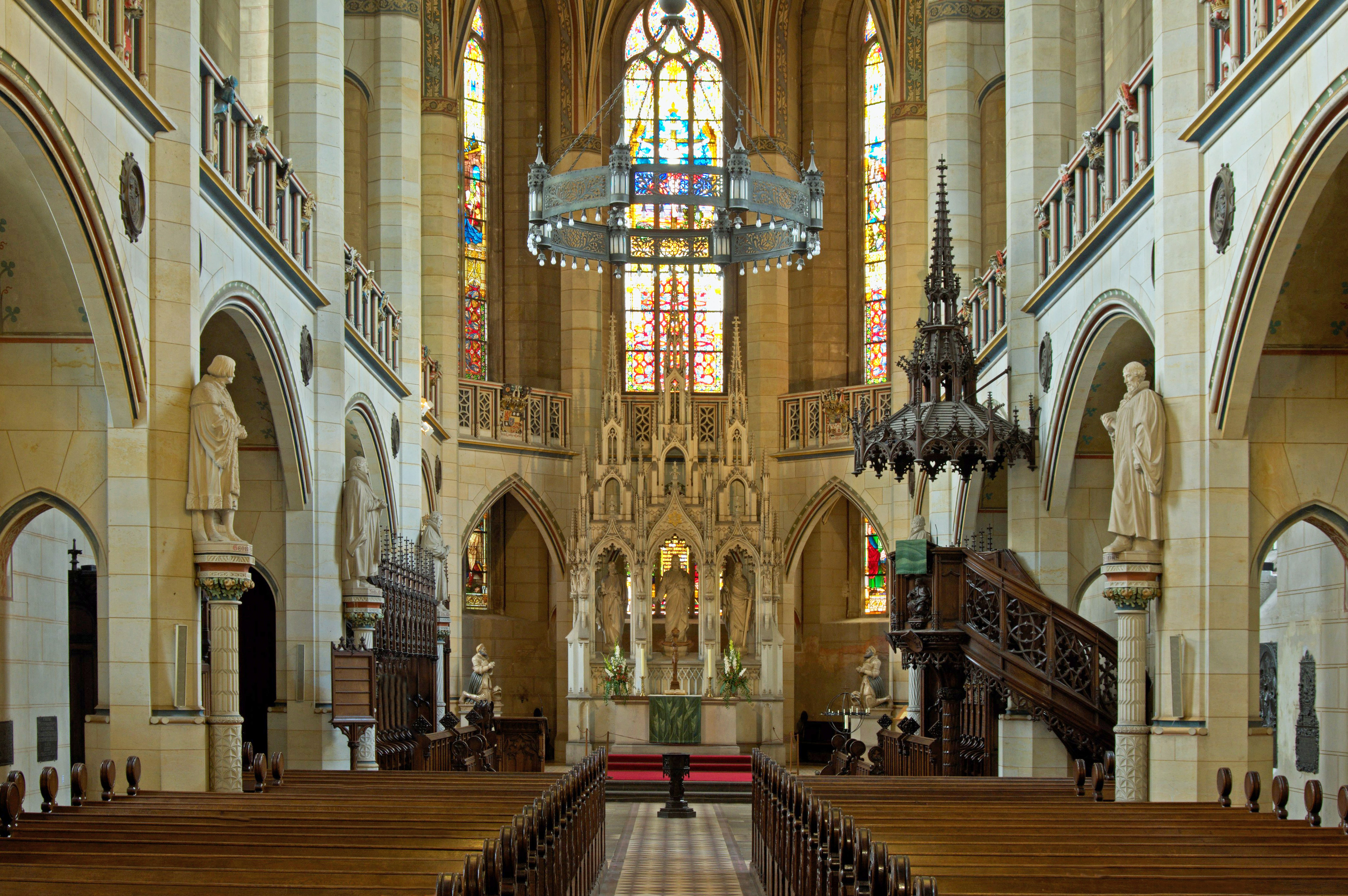 View to the altar of Wittenberg Schlosskirche.